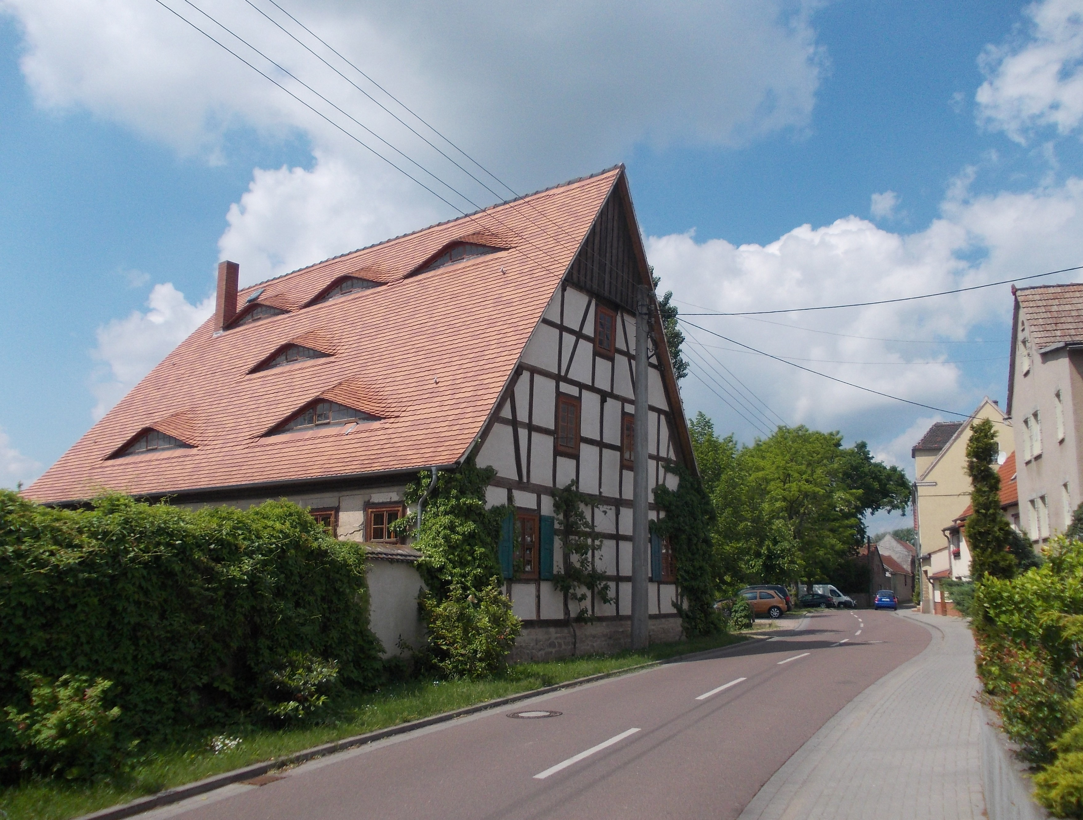 Zappendorf watermill (Salzatal, district: Saalekreis, Saxony-Anhalt)